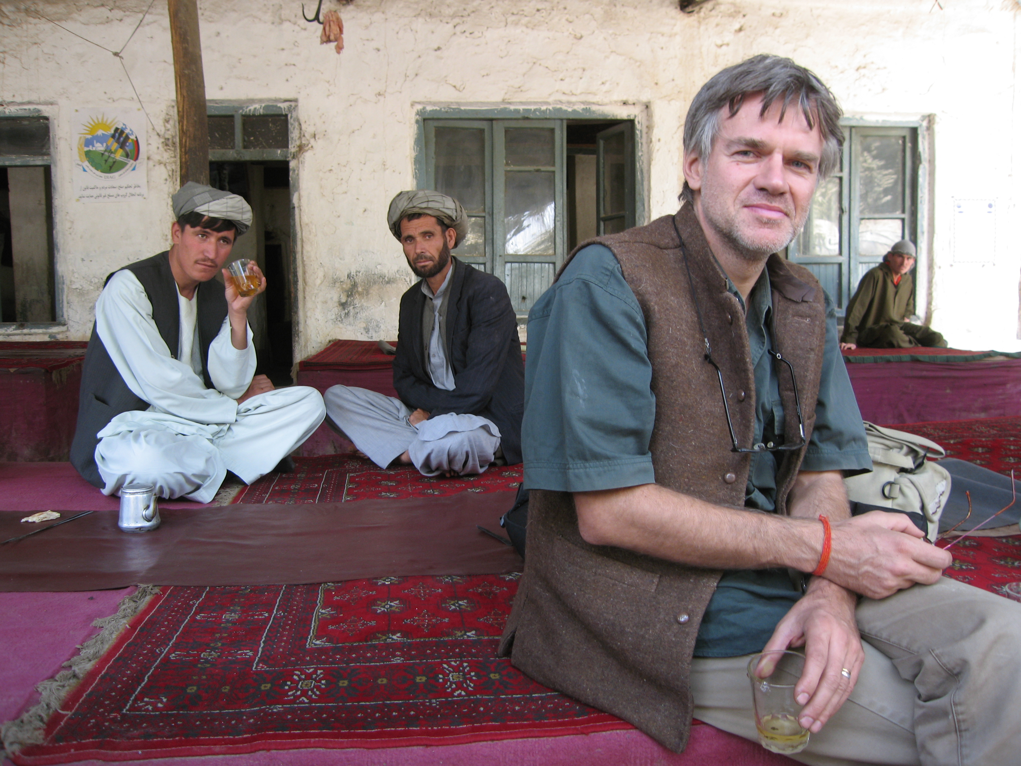 Olivier Weber in Afghanistan